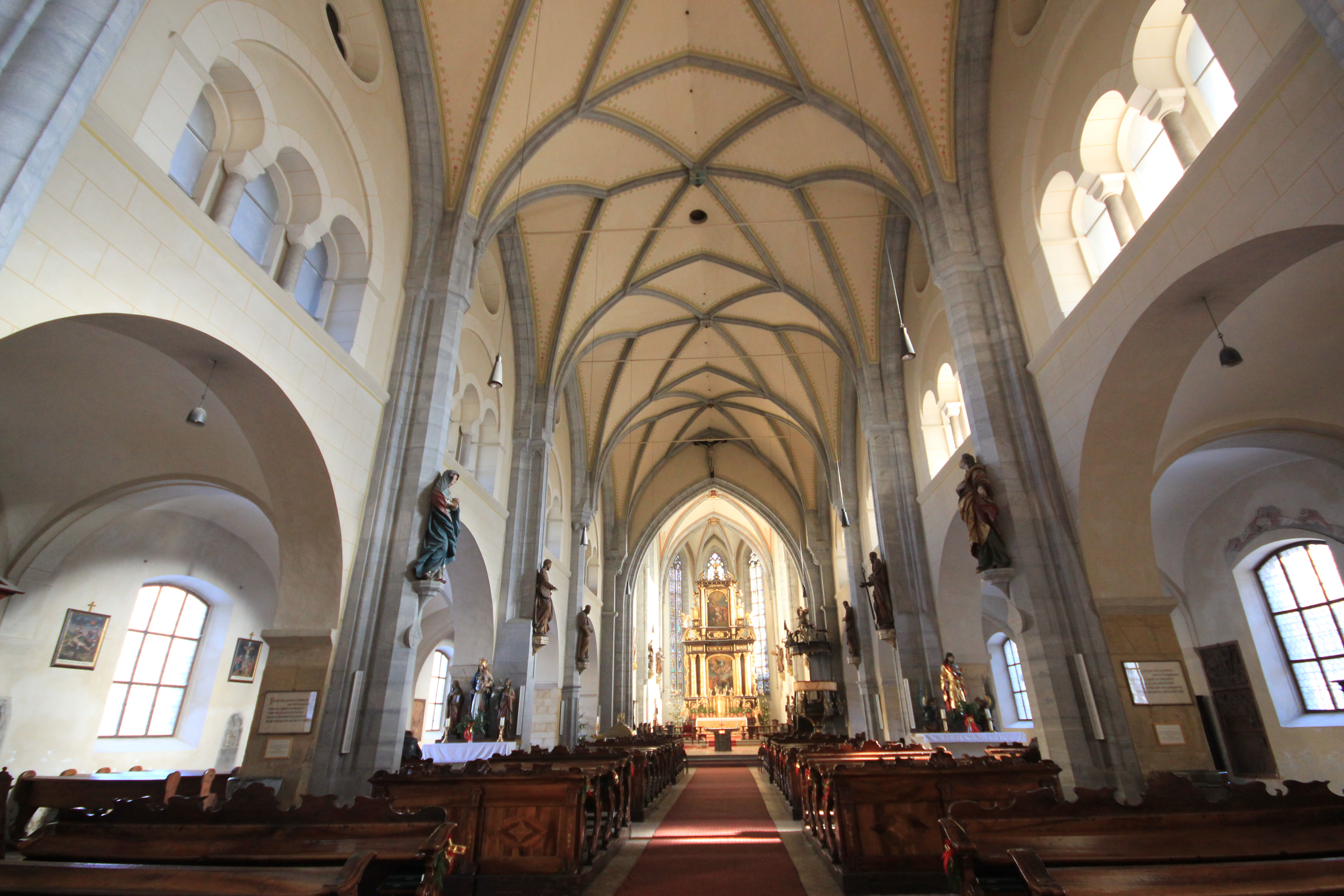 Parish church of Friesach: Interior